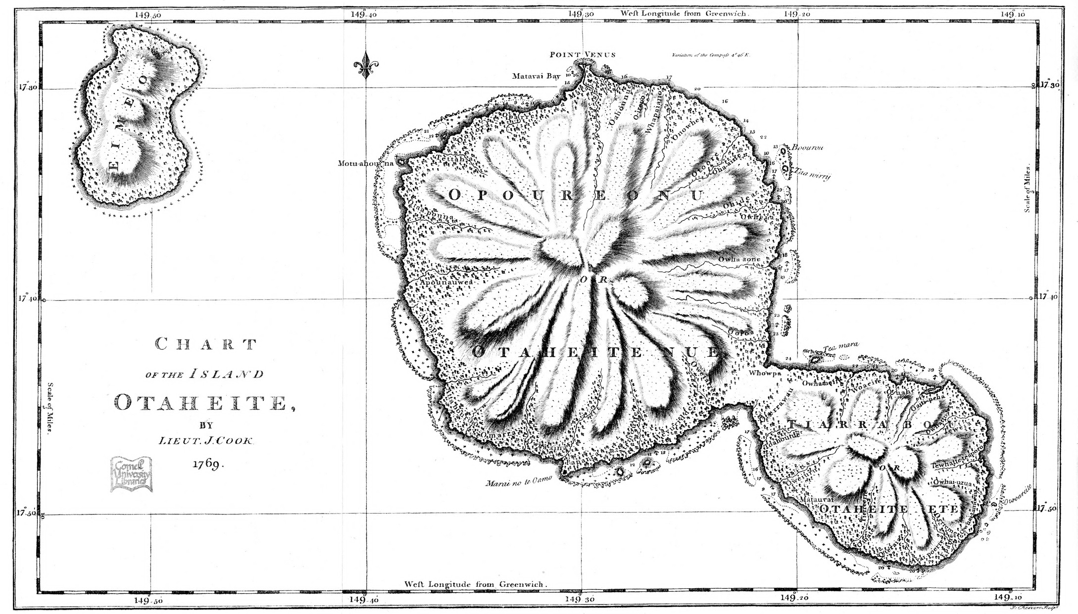 This is an facsimile of Lieutenant (later Captain) James Cook's 1769 chart of the island of Otaheite (today called Tahiti).